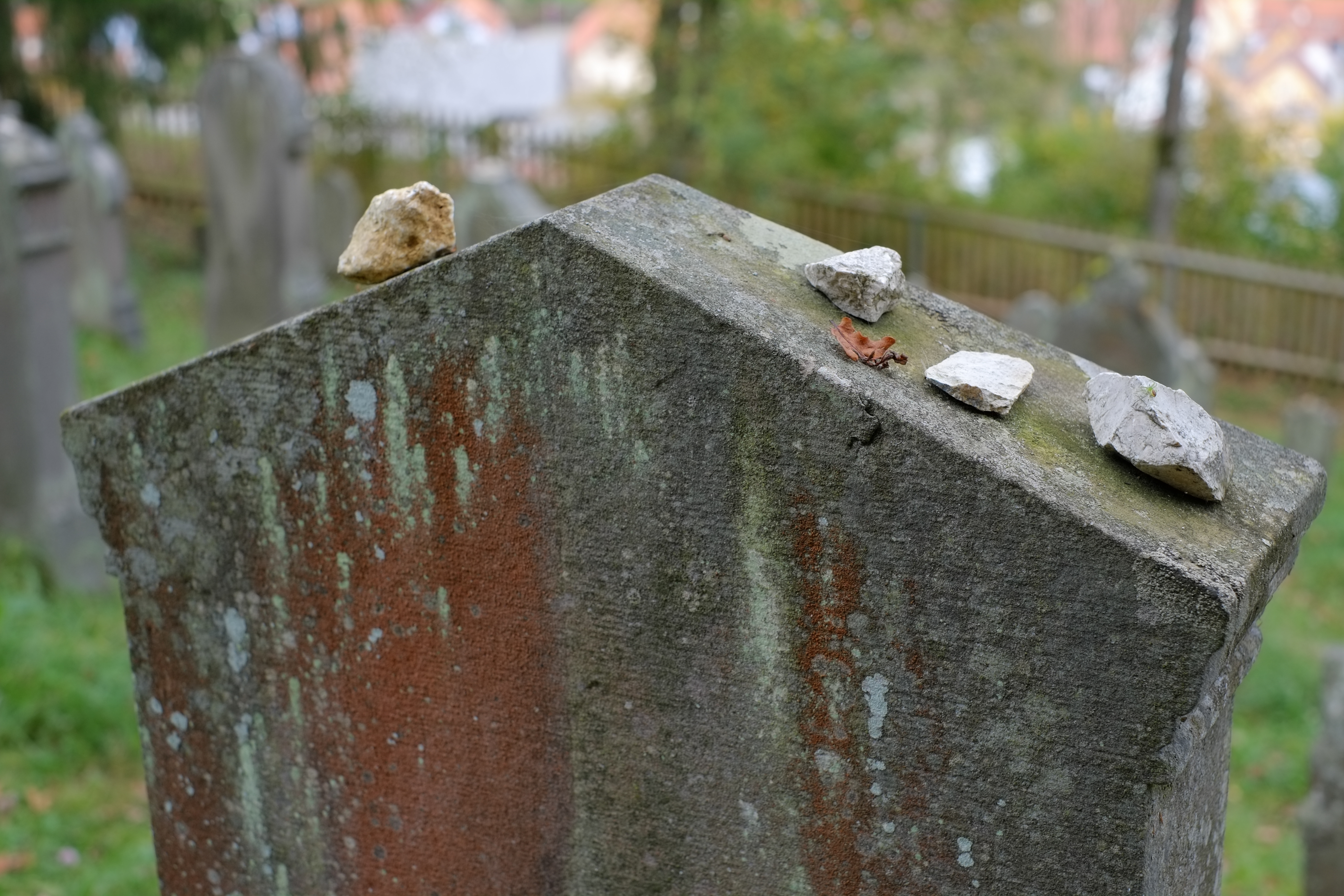 Jewish cemetery Buttenhausen, Münsingen, Baden Wurttemberg, Germany